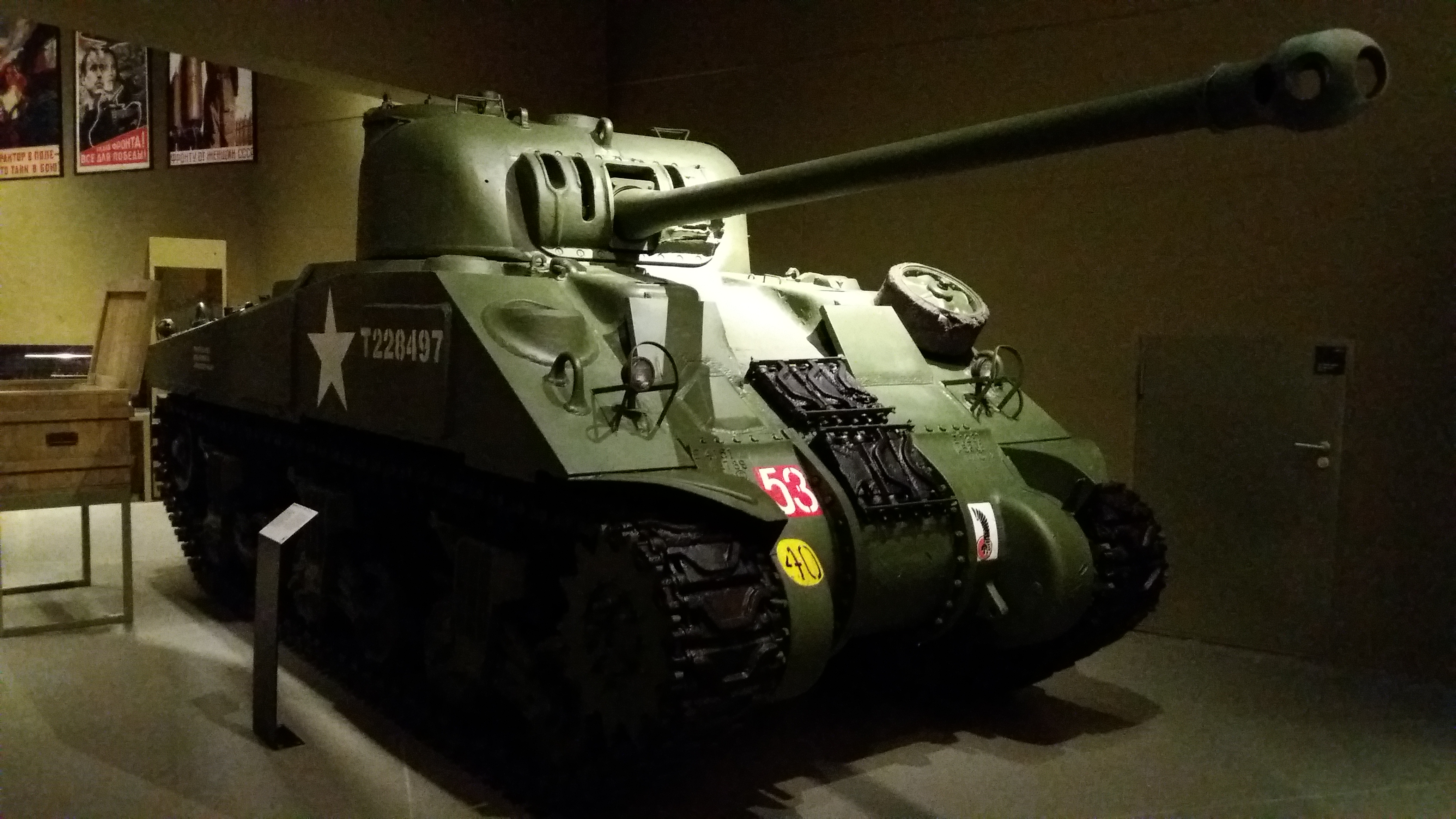 Sherman tank of Polish I Armored-Mechanized Corps fighting in Western Europe during II world war. Gift of the Royal Museum of the Armed Forces in Brussels at permanent exhibition in Museum of the Second World War, Gdańsk, Poland.